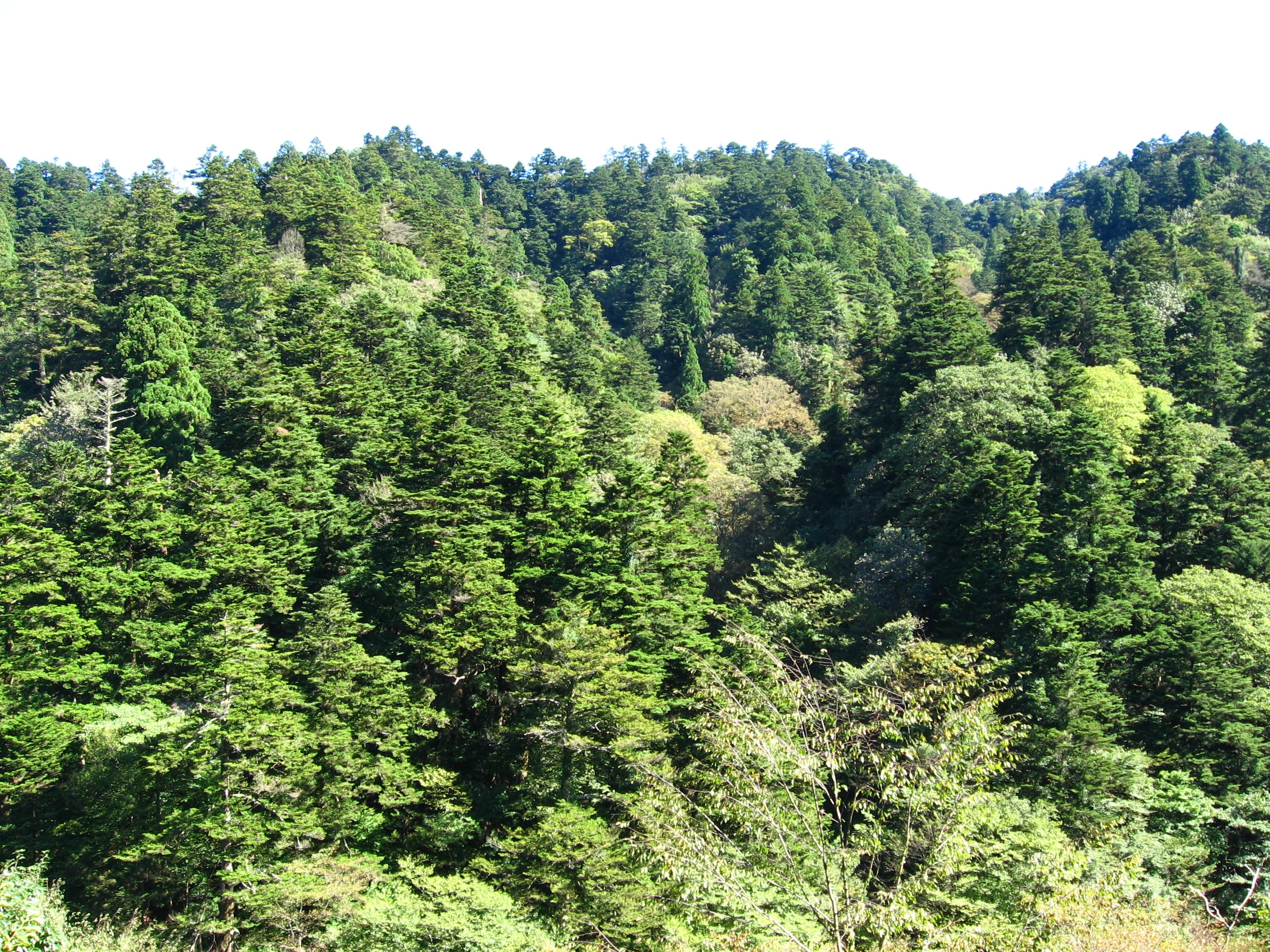 Mixed Abies - Cryptomeria japonica forest